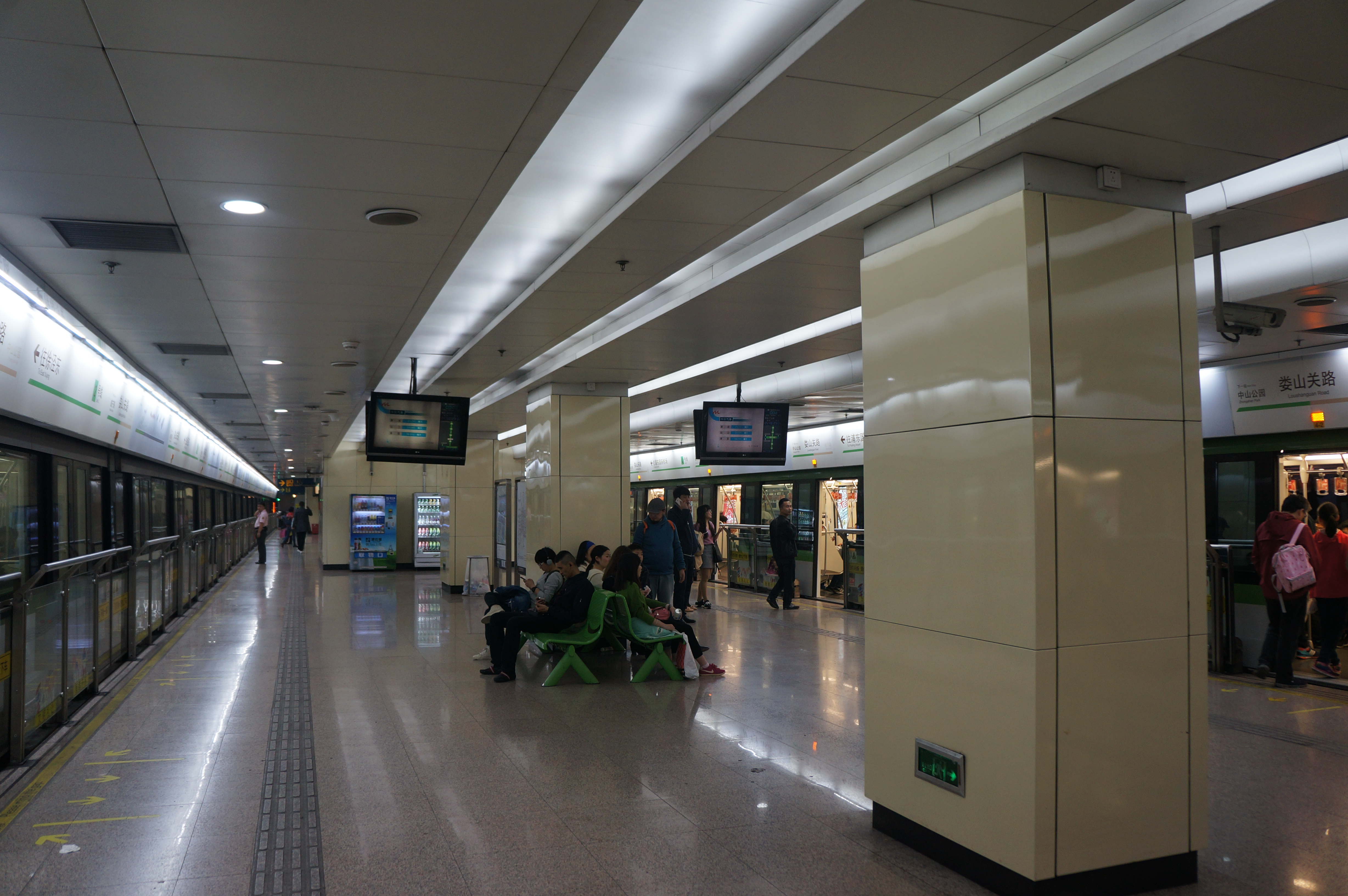 201611 Platform of Loushanguan Road Station